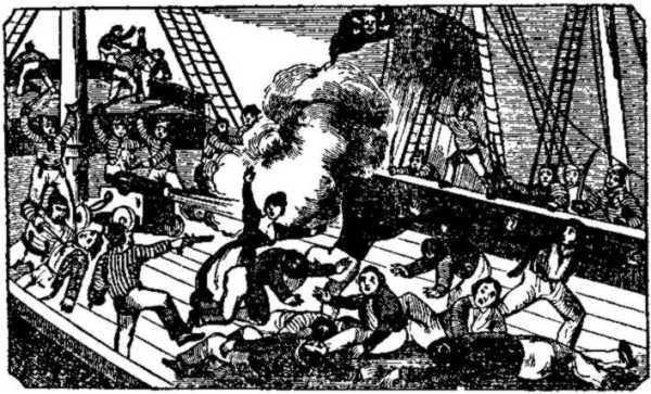 The death of pirate Jean Lafitte